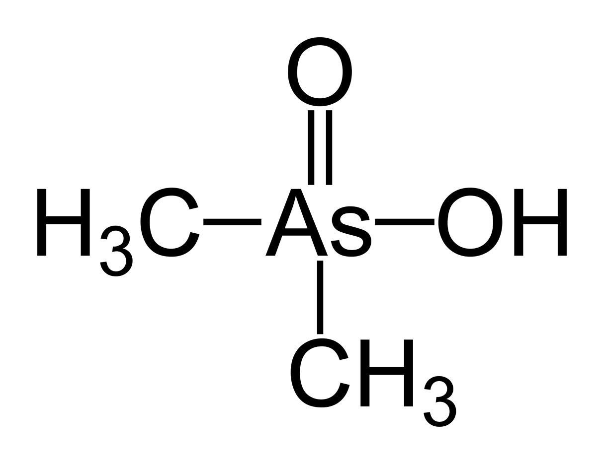 Flat structure formula of Dimethylarsenic acid (Cacodylic acid)